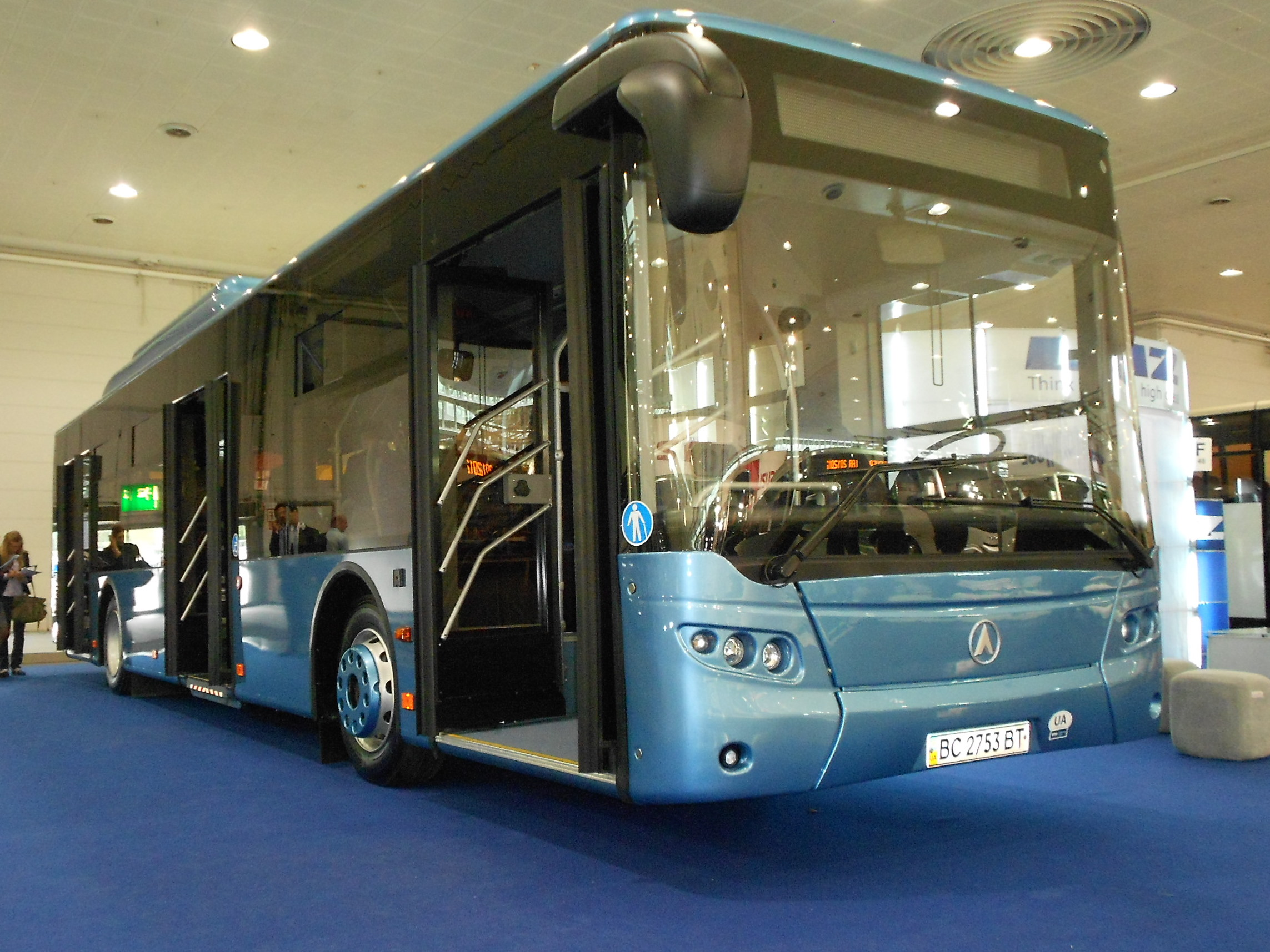 CityLAZ 12 CNG bus (BC 2753 BT) built 2012 by Lviv Bus Factory, Lviv, Ukraine. Photo taken at exhibition IAA 2012 in Hanover, Germany.